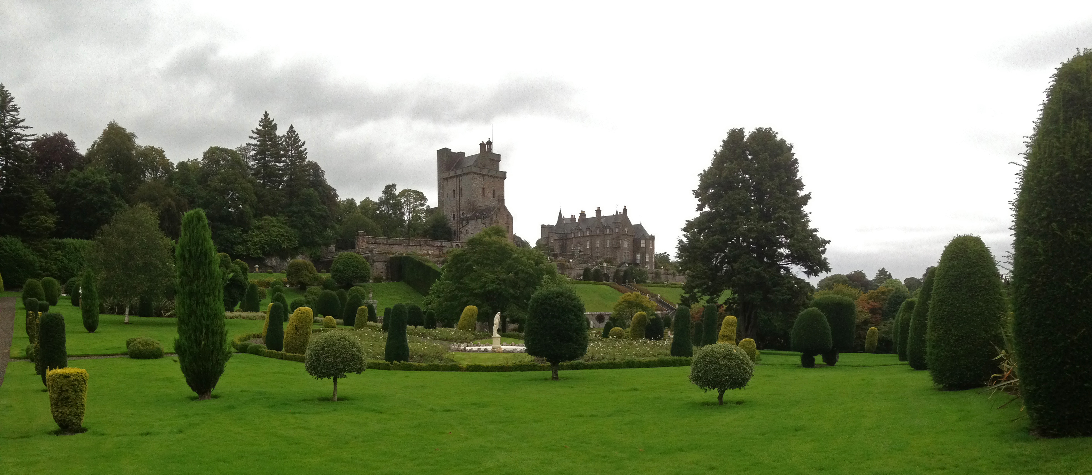 Drummond Castle panoramic view front the baroque garden